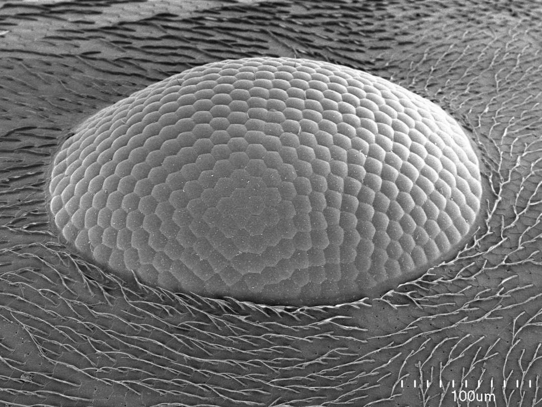 Microscope image of an eye of Iridomyrmex purpureus